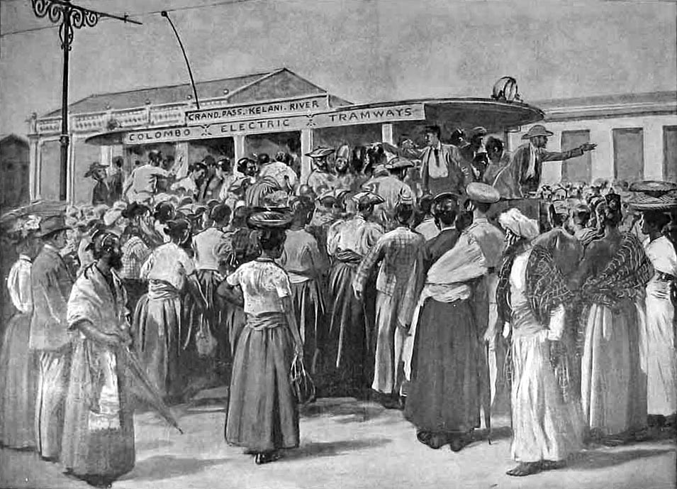 Views from the ILLUSTRATED LONDON NEWS and The Graphic (some with later hand coloring, all from ebay auctions): "Western Civilization in the East: the first electric tramway in Ceylon"*, from The Graphic, 1899